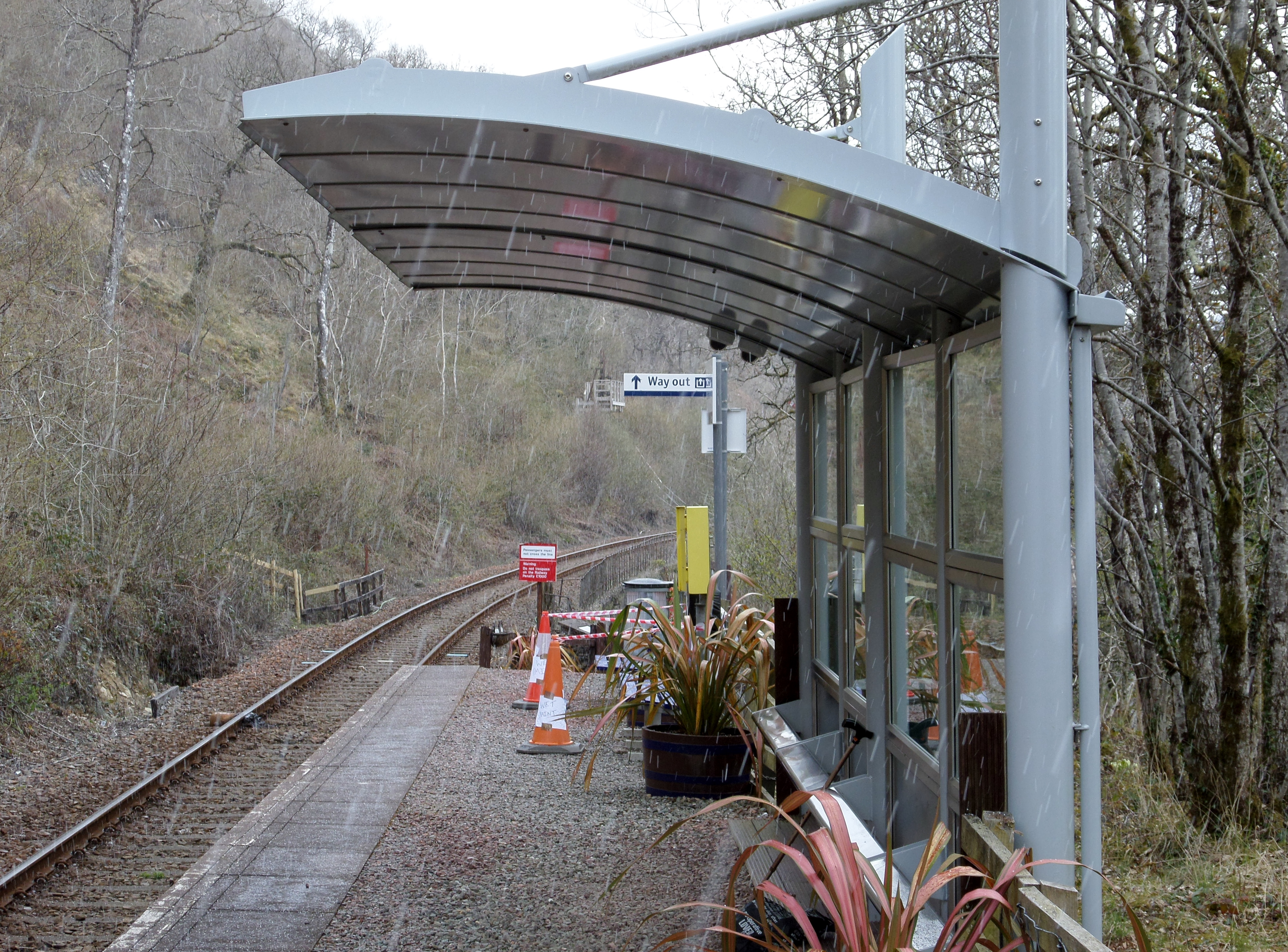 Falls of Cruachan station - south view with the shelter. West Highland Line, Argyll and Bute, Scotland.